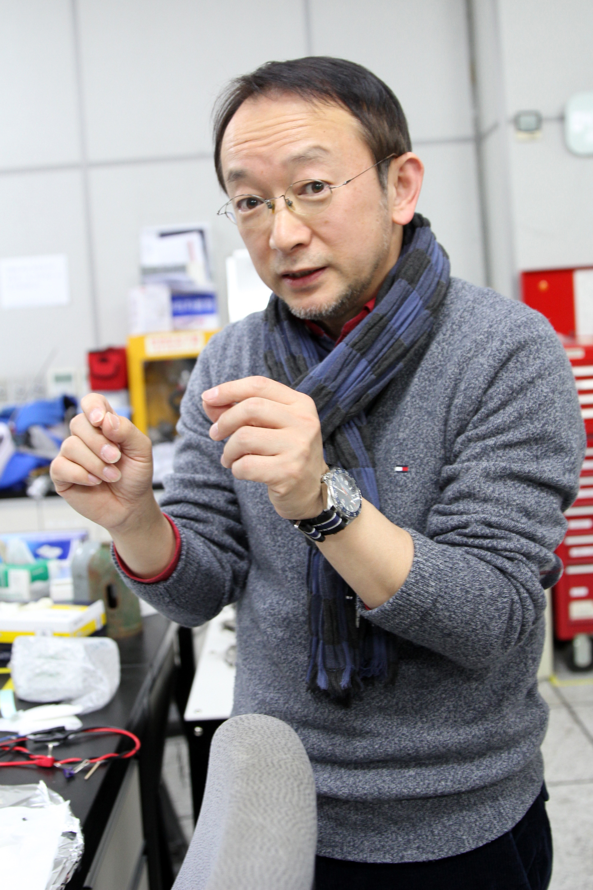 Physicist Yeom Han-woong 염한웅 in his lab in POSTECH